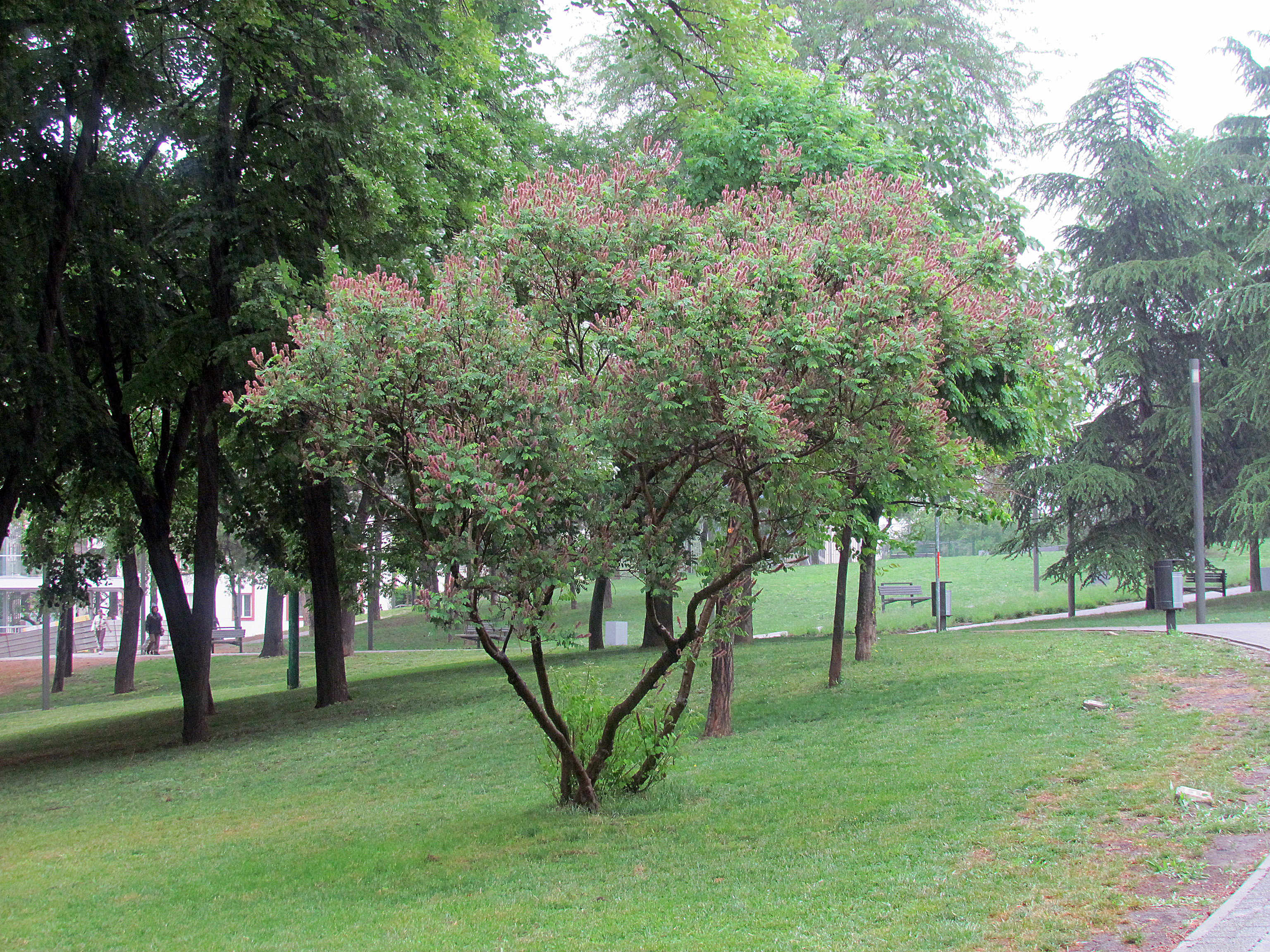 Amorpha fruticosa habitus.